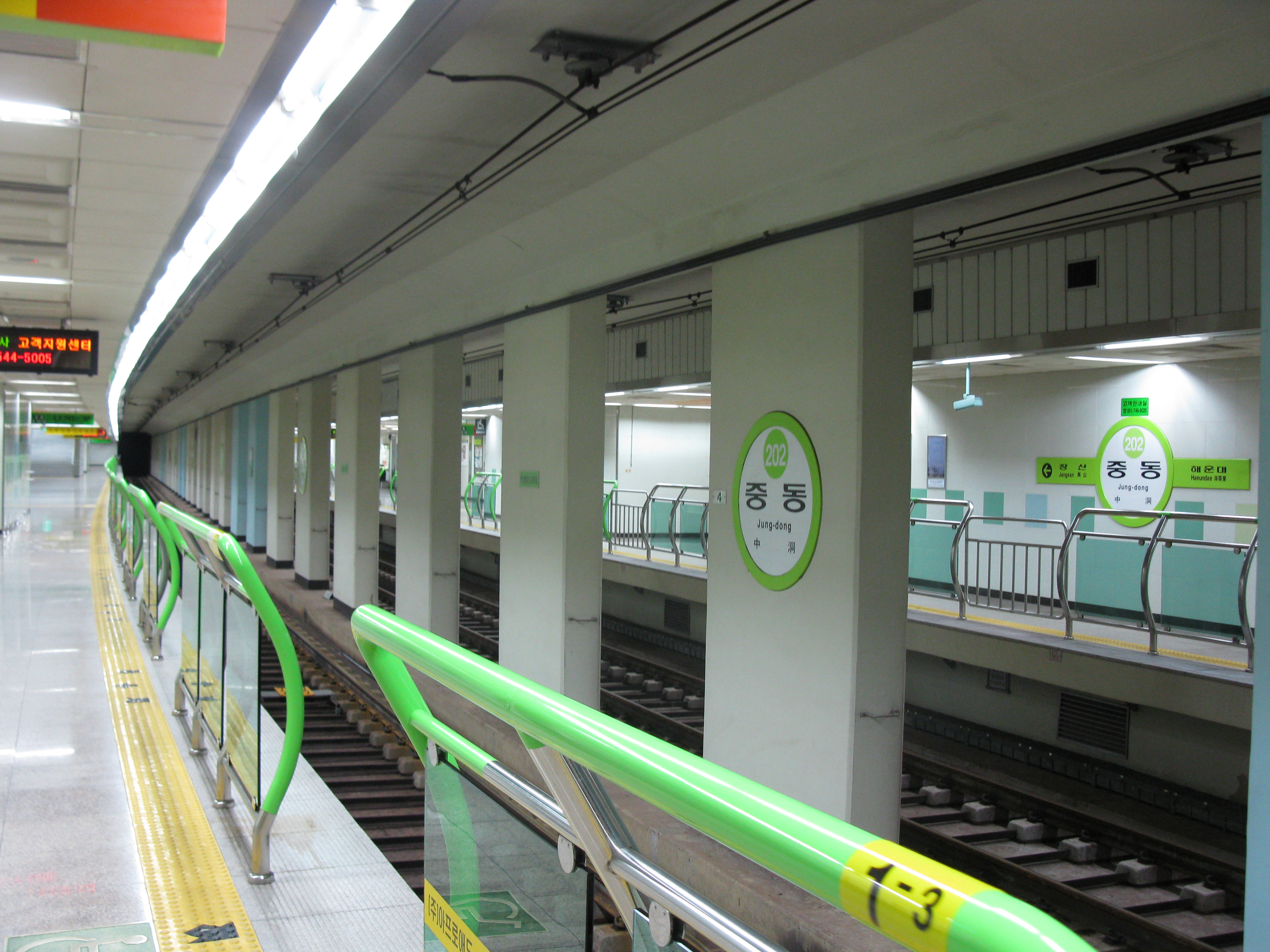 The platforms at Jung-dong Station on the Busan Subway Line 2